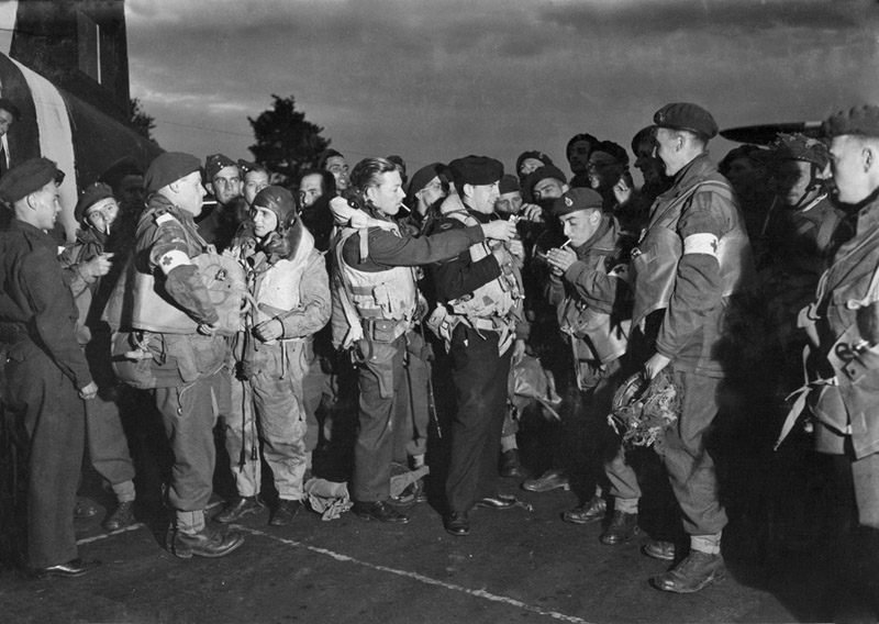 Paratroopers of 6th Airborne Division, including members of the Parachute Ambulance units, enjoy a last cigarette with RAF aircrew before boarding their transport